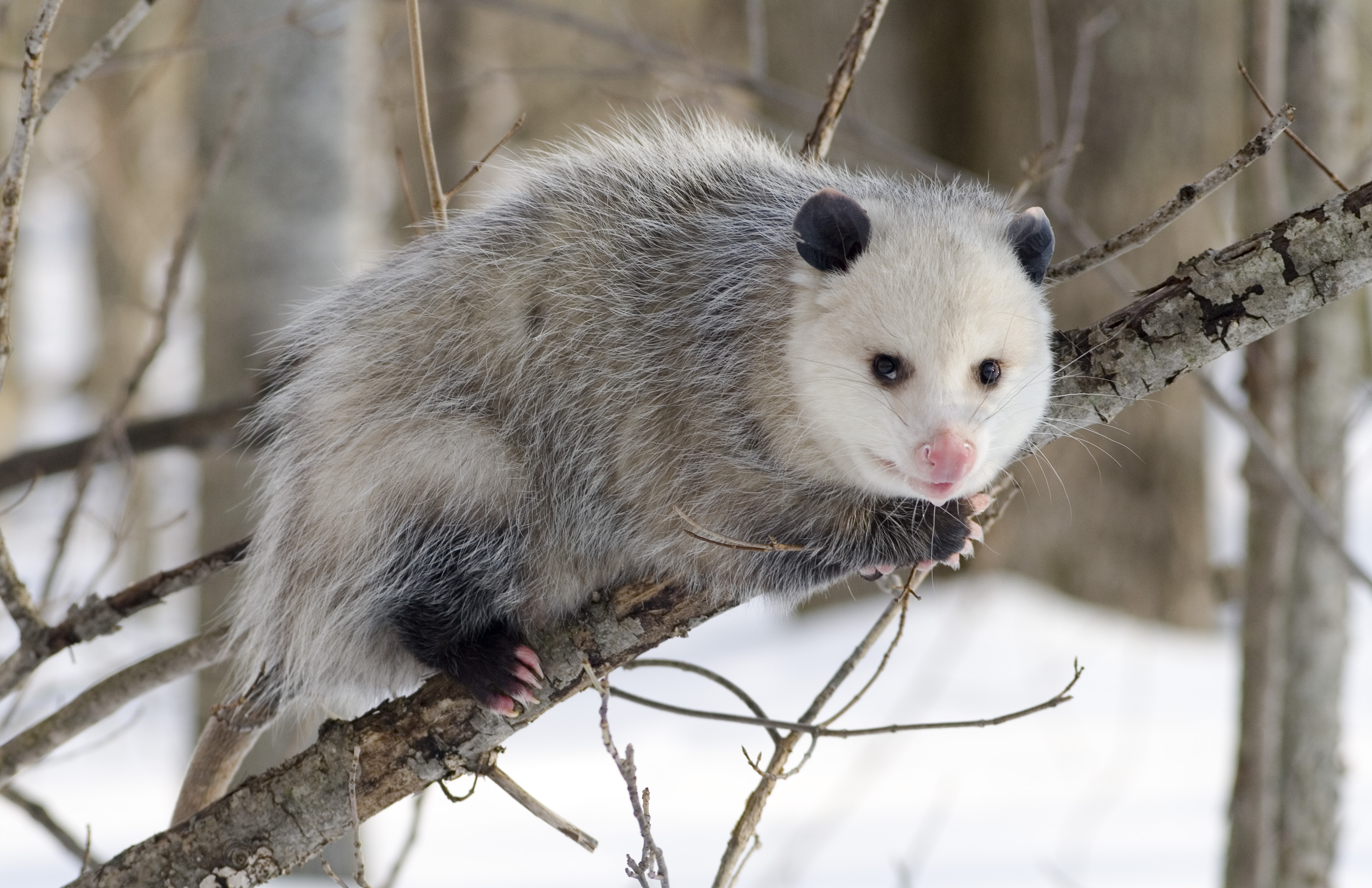 North American Opossum with winter coat.